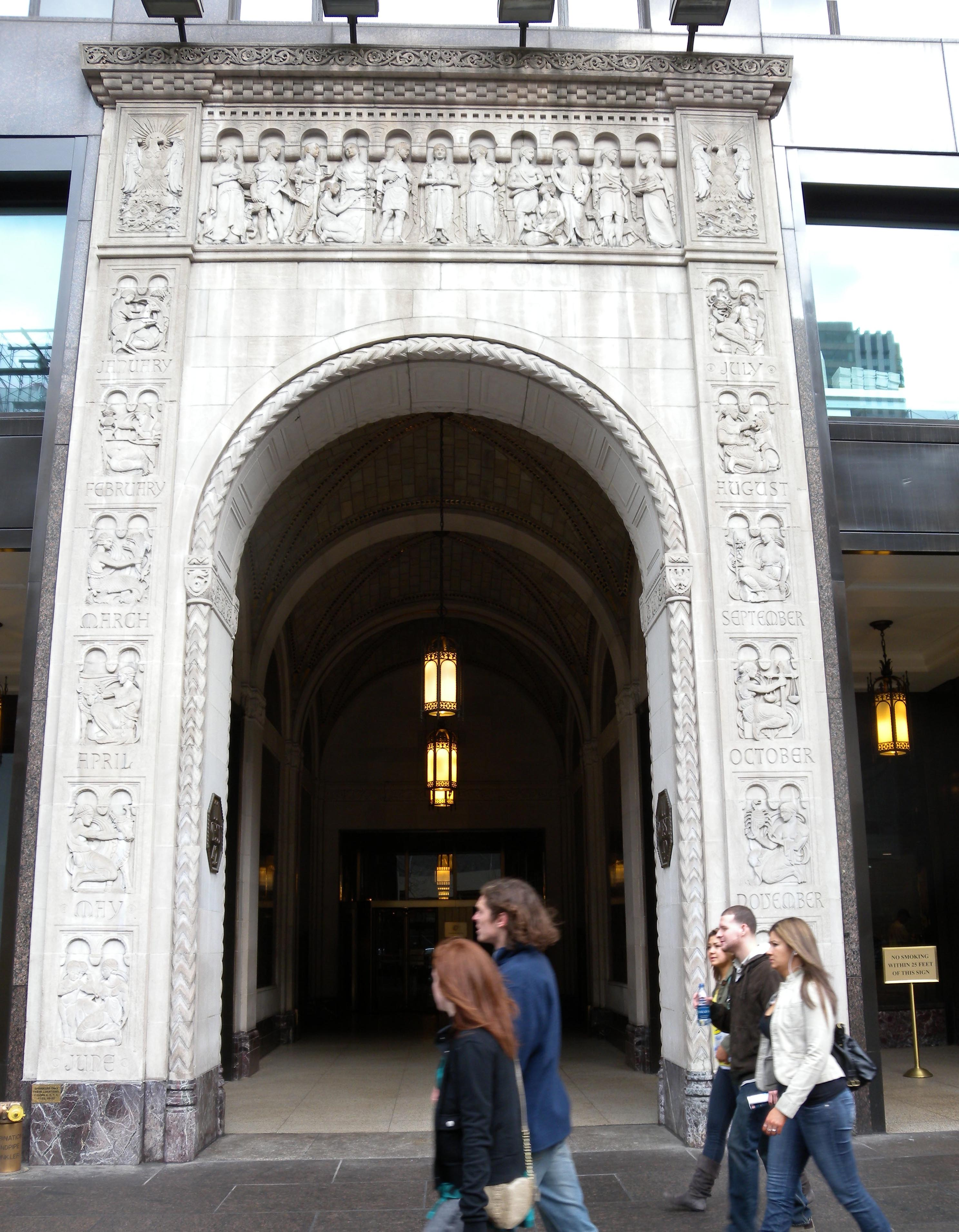 Looking north at entry of NYU building at 11 West 42nd street, with named months and zodiacal signs.